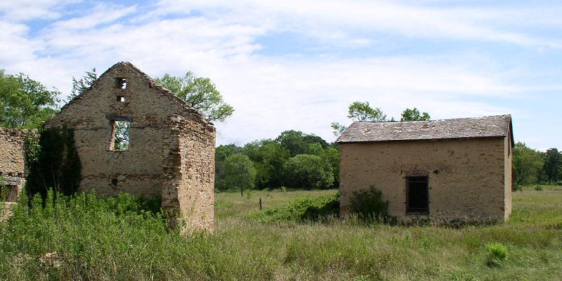 Jabs Farm: Minnesota Valley National Wildlife Refuge, MN, USA